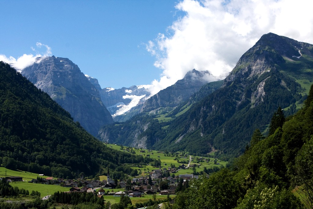 Linthal, canton of Glarus, Switzerland. The Biferten glacier left of Tödi (in the clouds) is visible.